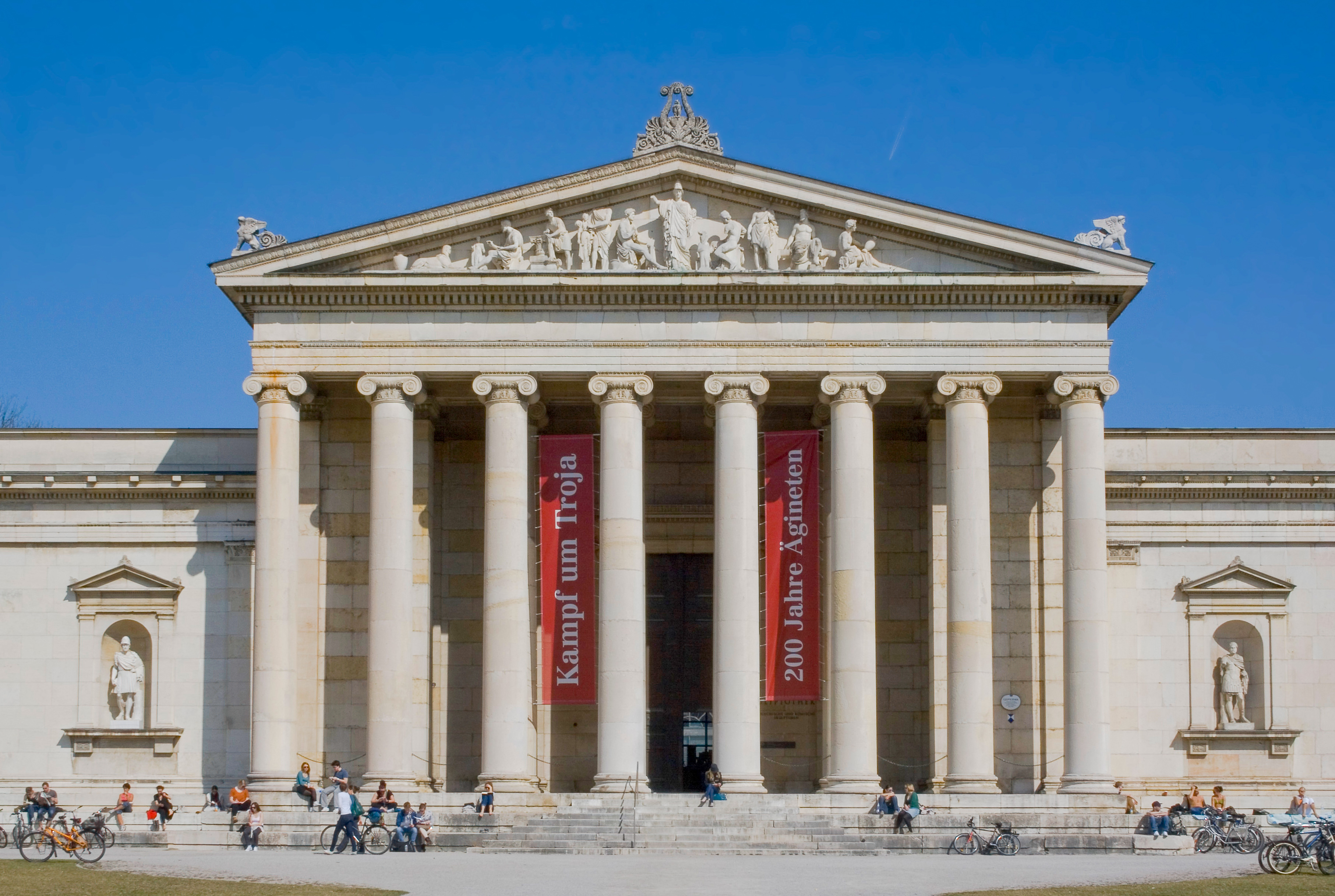 Glyptothek, Königsplatz, Munich, Germany